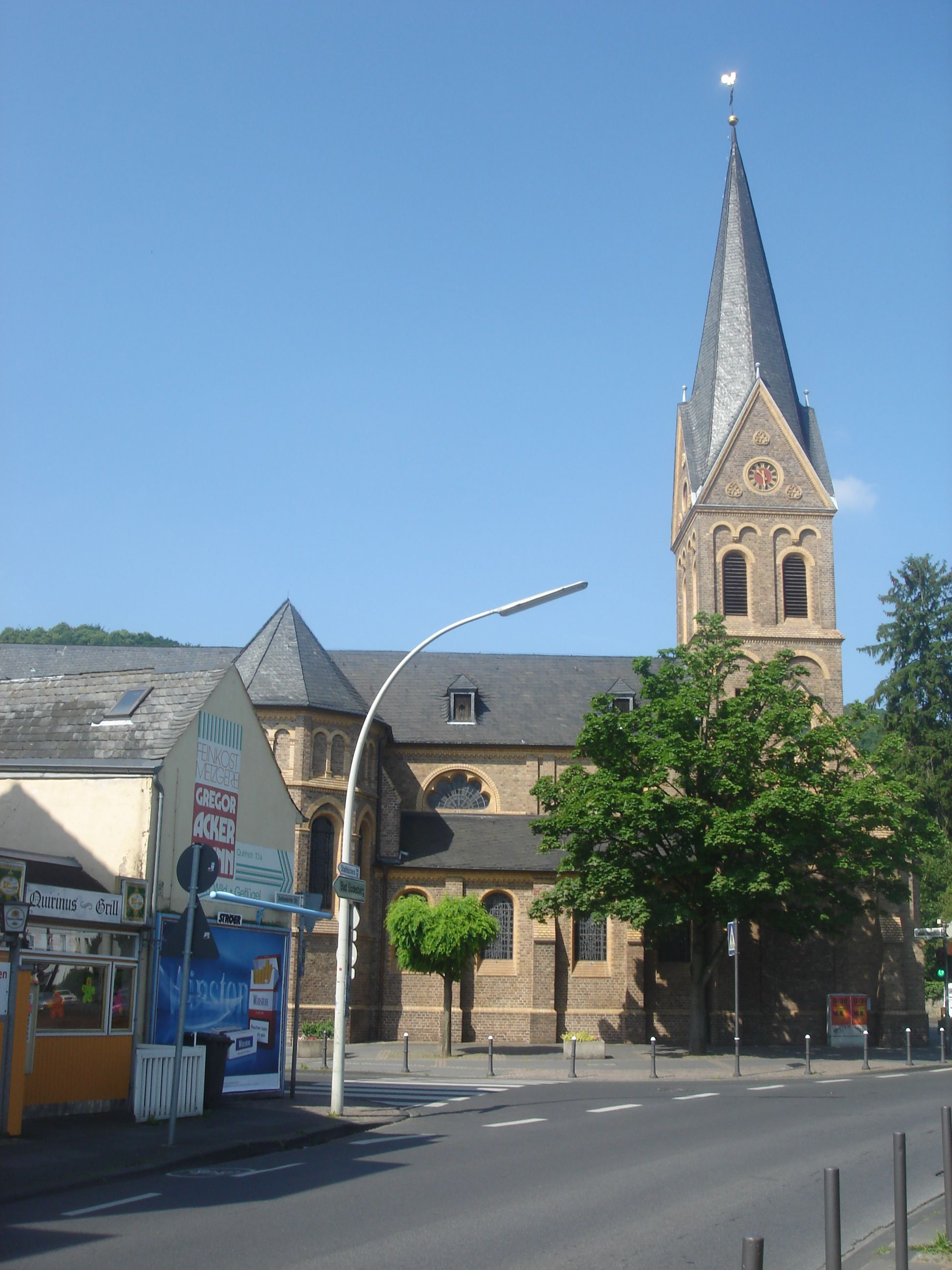 Church St. Quirinus in Bonn-Dottendorf, Germany.